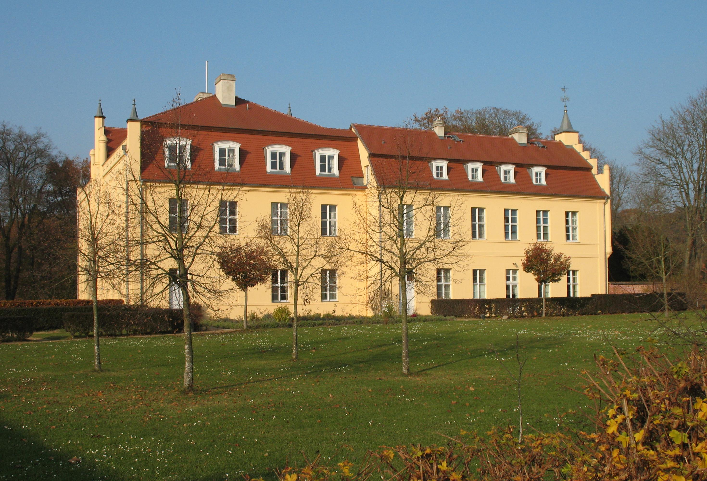 Palace in Nennhausen in Brandenburg, Germany